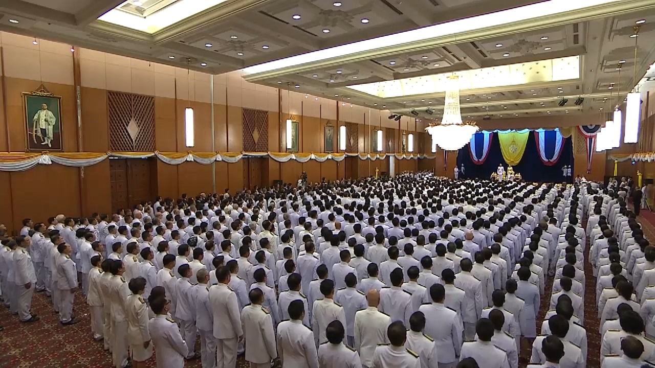 Landscape of Thai parliament opening ceremony on May 24, 2019 at Vithes Samosorn Hall, Ministry of Foreign Affairs